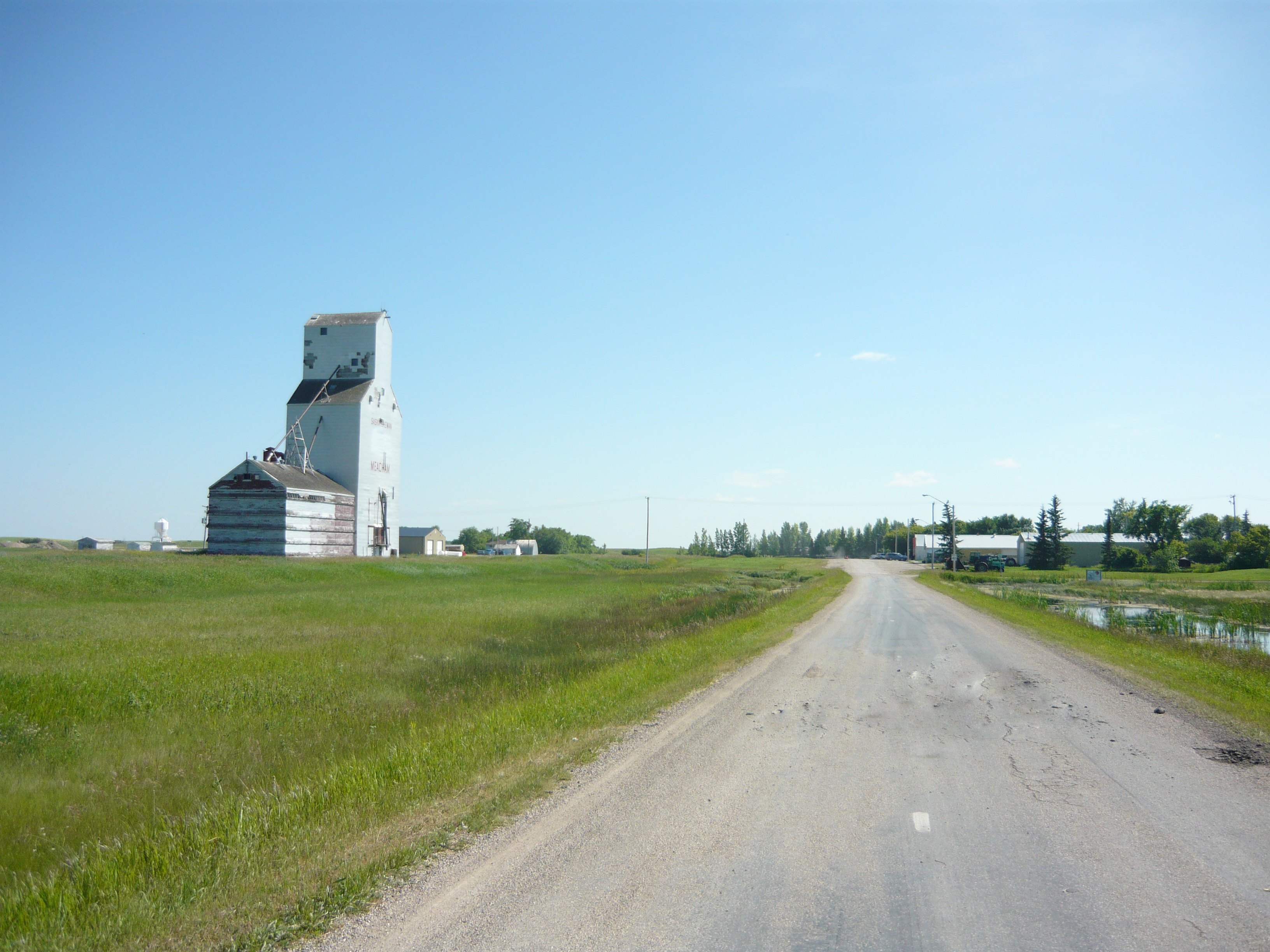 First Avenue, Meacham, Saskatchewan, Canada.